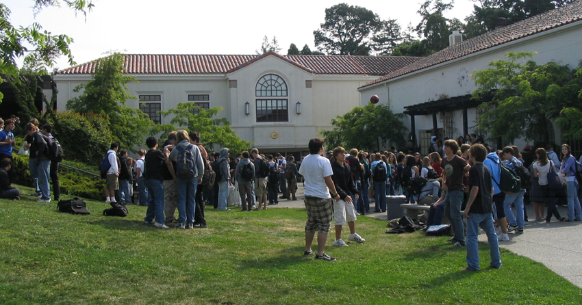 The creators of the world famous game, Upkeep, gather on the grass of the quad at Piedmont High School during brunch. Photo taken May 18, 2007.